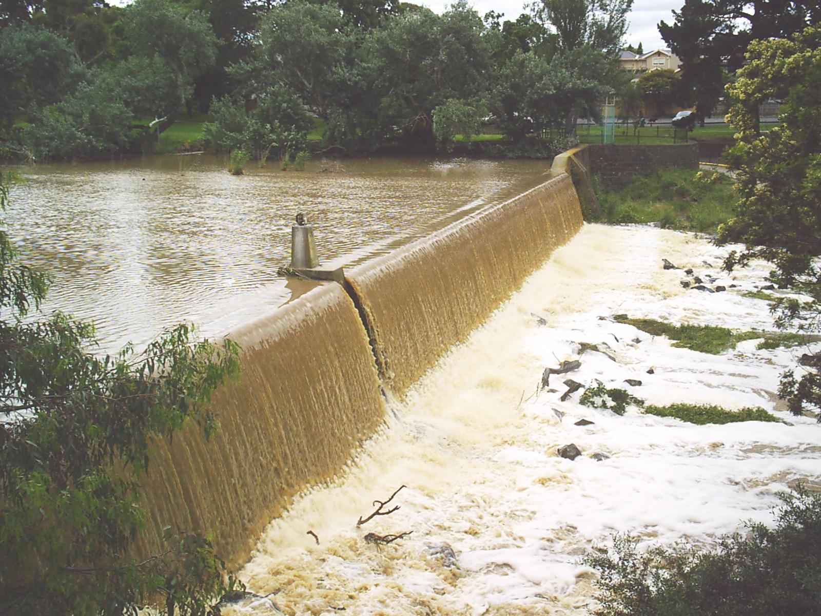 The wier at Coburg Lake, Victoria (Australia) after heavy rain.